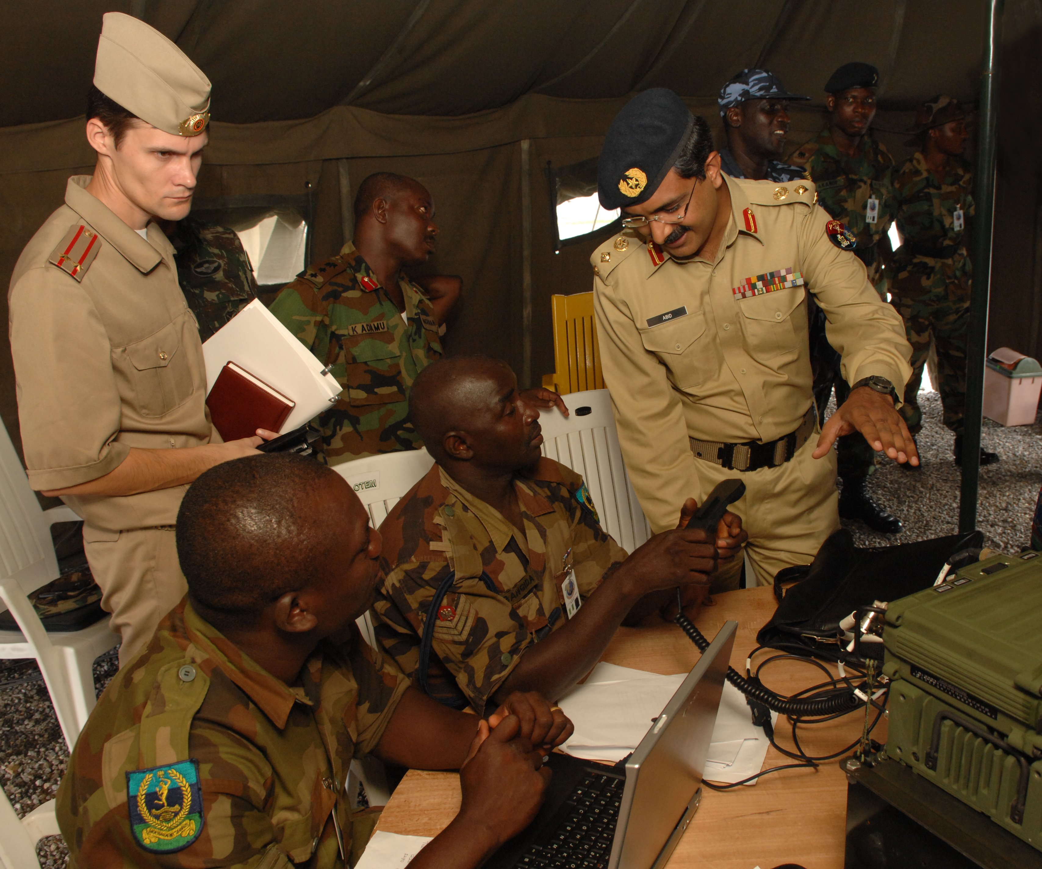 Defense attachés from Russia and Pakistan visit the communications tent at the Nigerian Air Force Base, Abuja, Nigeria, July 21, 2008,during Africa Endeavor 2008. Africa Endeavor 2008, a U.S. European Command-sponsored exercise, brings the U.S. and African nations together to plan and execute interoperability testing of command, control, communications, and computer systems from participant nations in preparation for future African humanitarian, peacekeeping, and disaster relief operations.